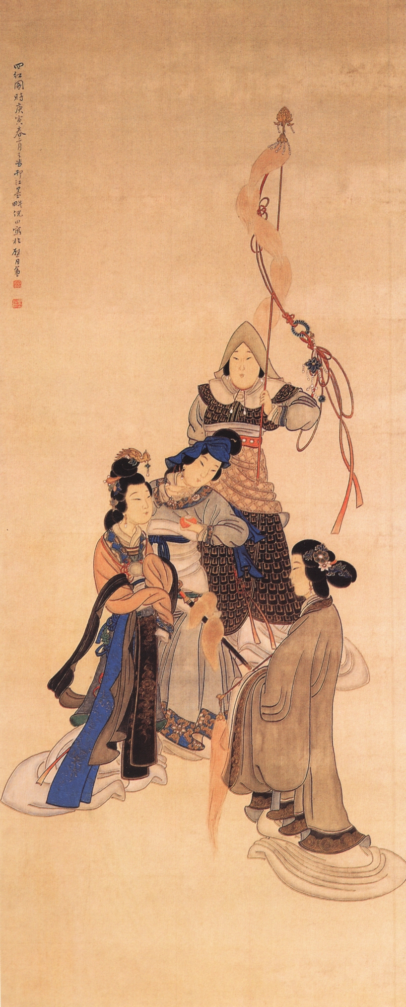 Four Beauties, Ni Tian, Qing Dynasty, China, Nanjing Museum.